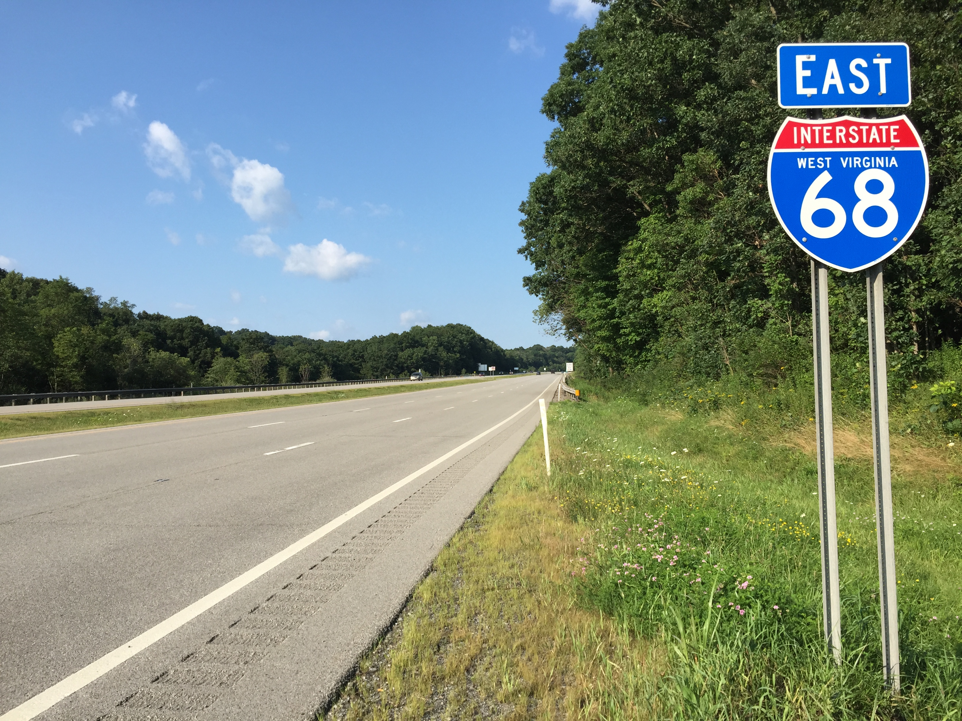 View east along Interstate 68 just east of Exit 23 (West Virginia State Route 26, Bruceton Mills) in Preston County, West Virginia